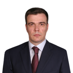 Oleg Savelyev, Minister for Crimean Affairs